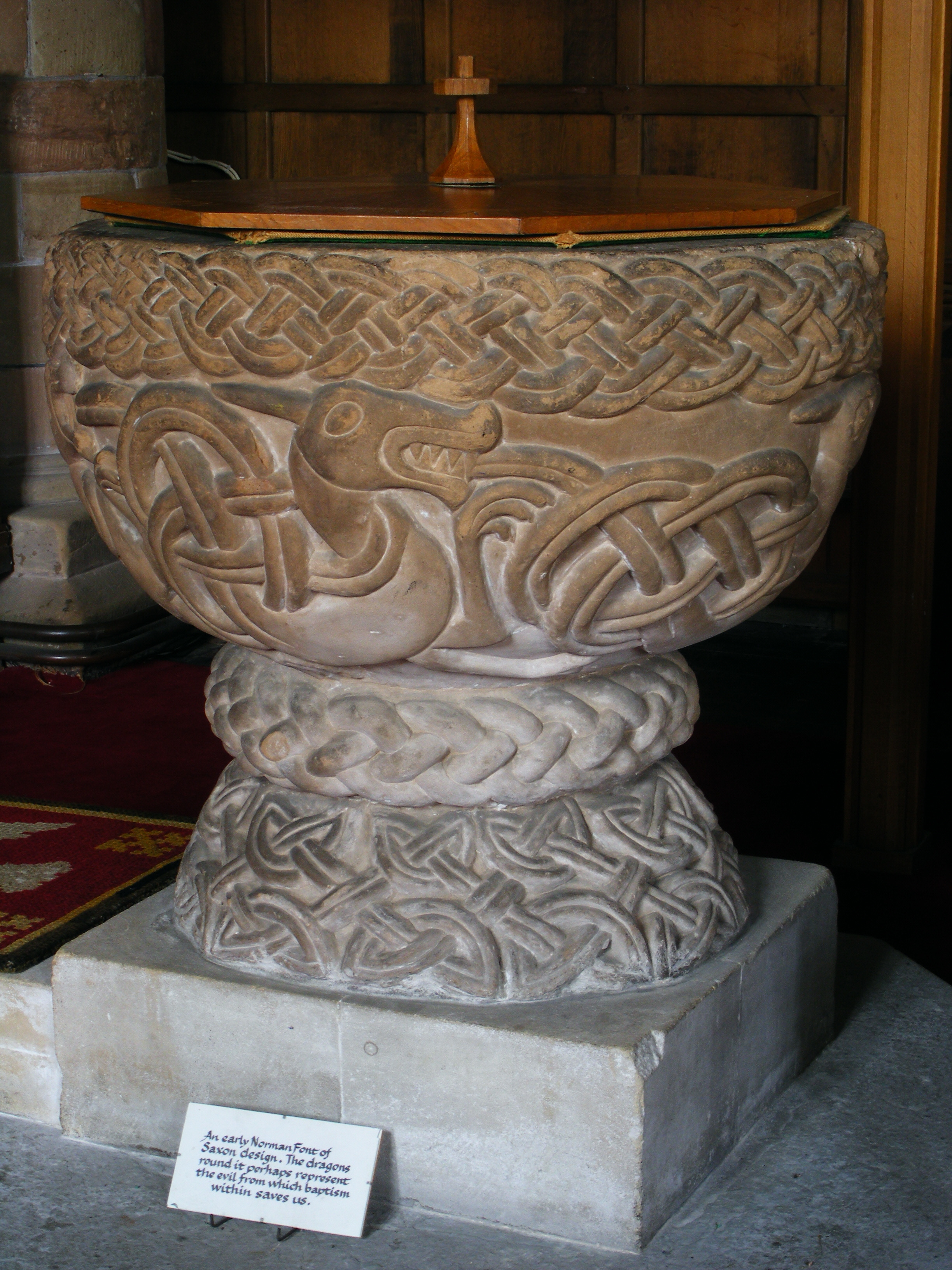 Norman font in St Cassian's parish church, Chaddesley Corbett, Worcestershire